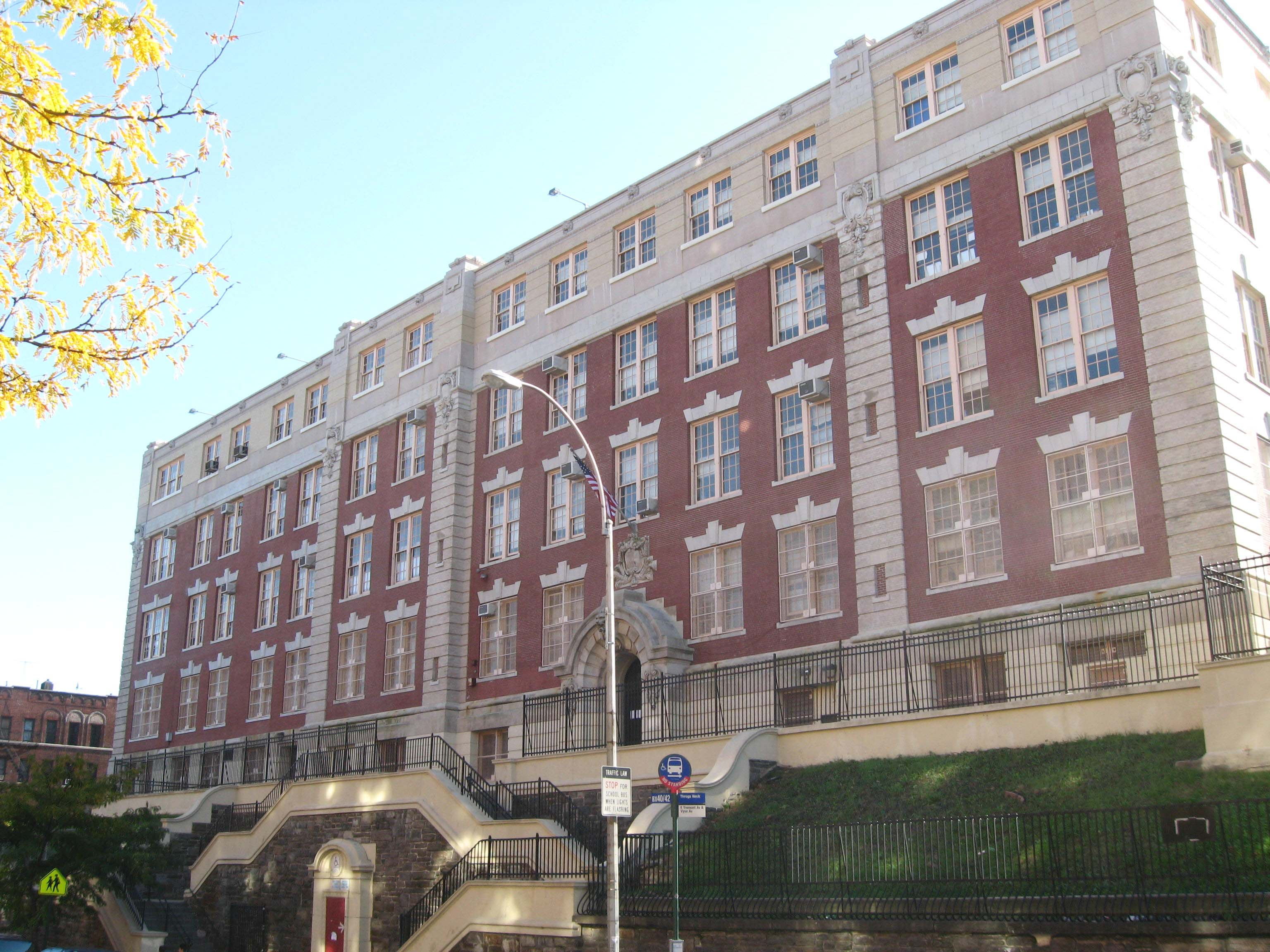 Looking southeast at CS (formerly PS) 6 in West Farms, Bronx on a sunny midday.